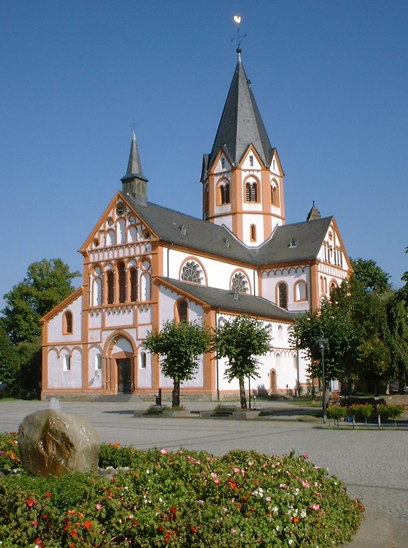 Church St. Peter in Sinzig in Rhineland-Palatinate, Germany